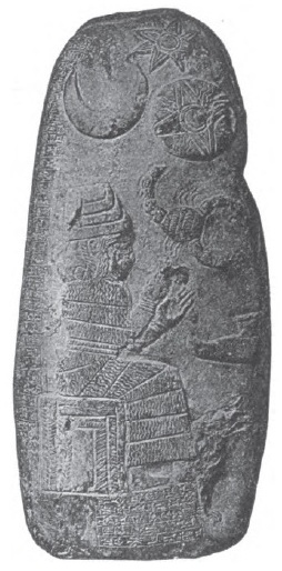 Kudurru Sb. 21 of Nazi-Maruttash